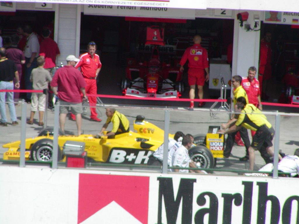 Jordan pushed in pits at the 2003 Hungarian Grand Prix.